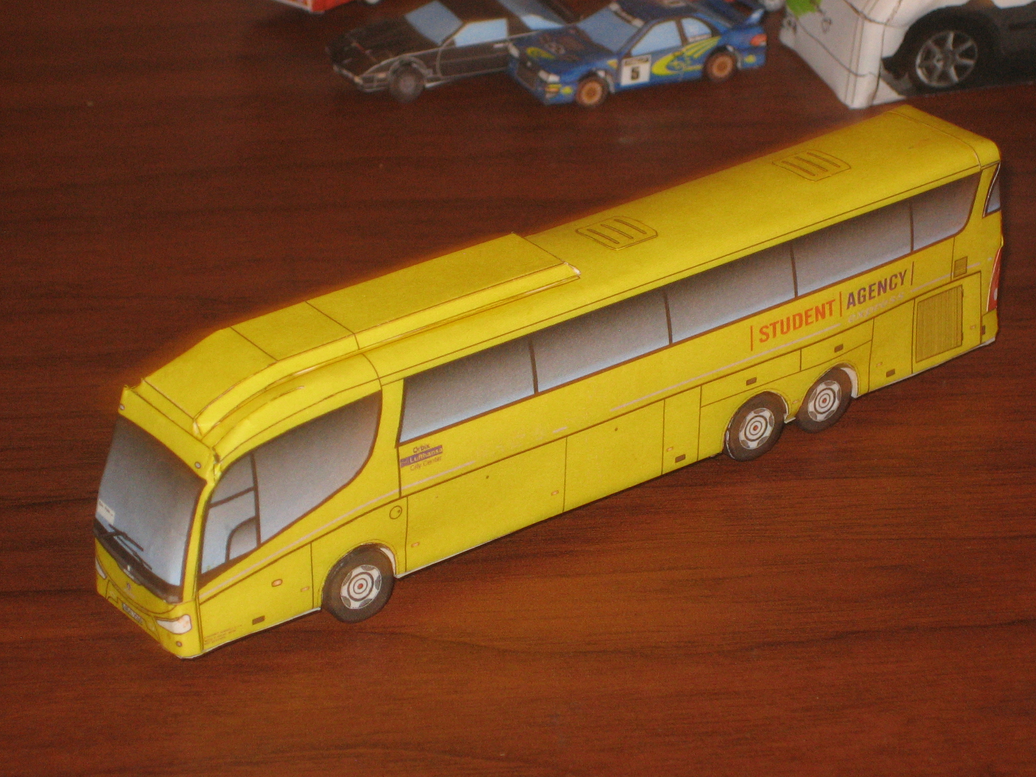 paper coach student agency scania